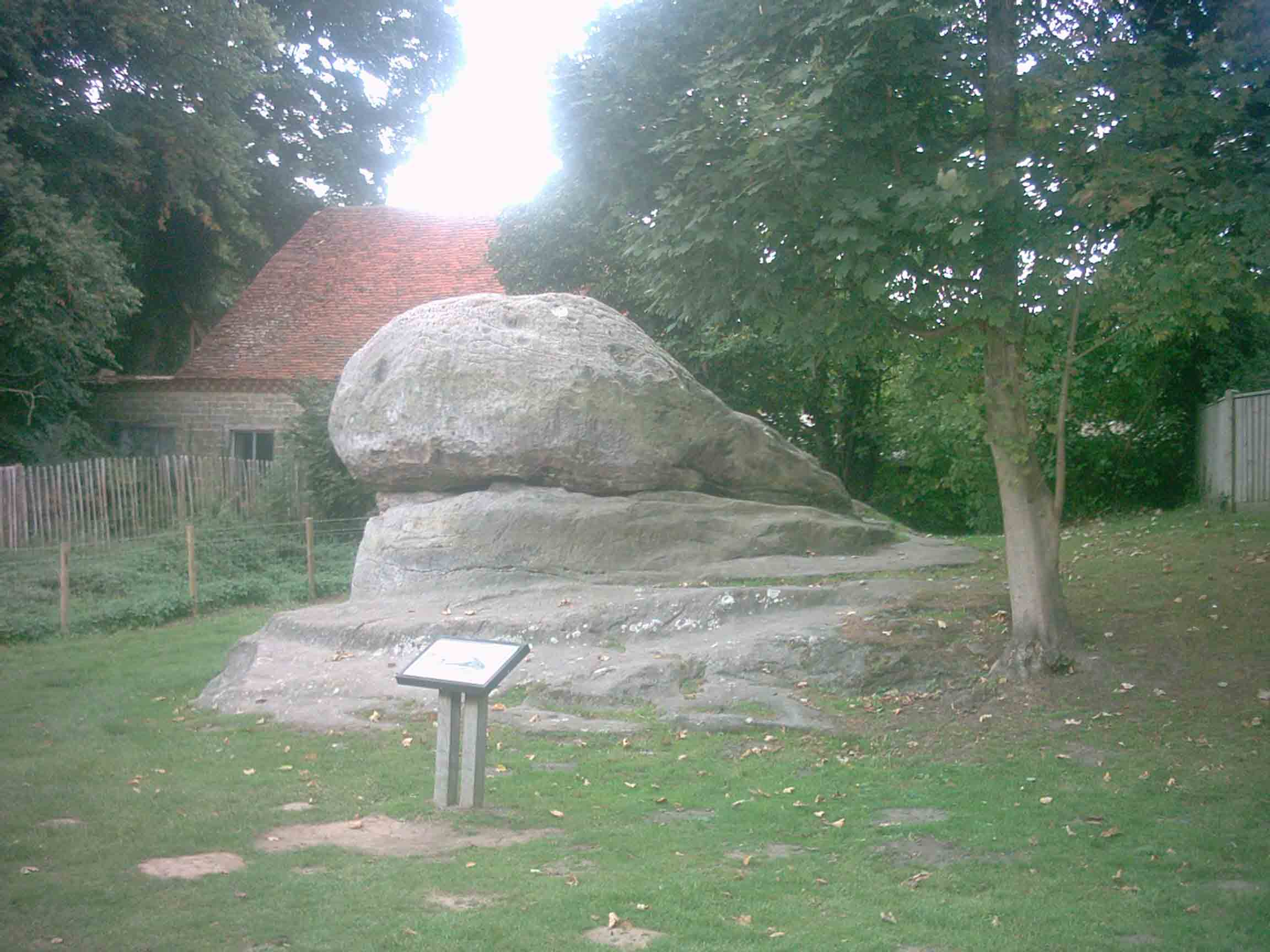 The Chiding Stone at Chiddingstone in Kent.